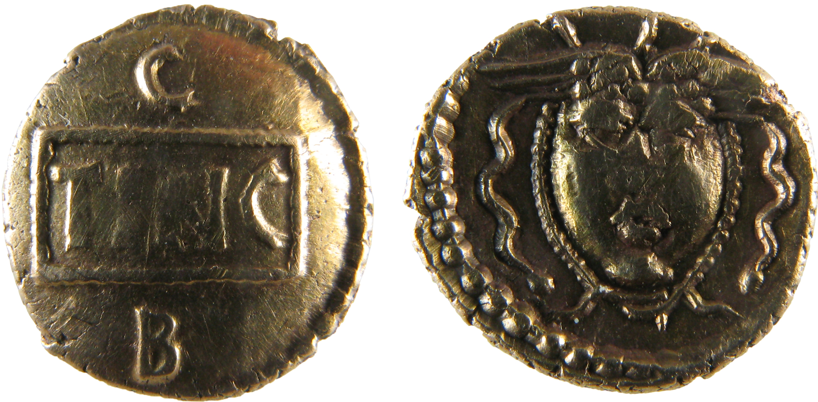 A dispersed hoard of two Iron Age gold quarter staters of Tincomarus of the Atrebates tribe, a fragment of Iron Age silver unit and a Roman Republican denarius . a) Tincomarus Medusa gold quarter stater with TINC in corded tablet with C above and A below on the obverse and facing head of Medusa on the reverse. ABC 1076, BMC 811-824, Van Arsdell 378-1. Diameter 11.00mm. Weight 1.18g. b) Tincomarus Medusa gold quarter stater with TINC in corded tablet with C above and B below on the obverse and facing head of Medusa on the reverse. ABC 1076, BMC 825-826, Van Arsdell 378-1. Diameter 10.75mm. Weight 1.20g. c) A worn silver Roman Republican denarius dating to 81 BC (Reece Period 1) with a bust of Pietas facing right on the obverse, and a jug and a litus within a wreath with IMPER below on the reverse. Mint of Rome. RRC 374/2. Diameter 17.85mm. Weight 2.39g d) Fragment of Iron Age silver unit probably consisting of c.1/3 of the coin. One break is quite fresh. Measures 9.53x9.04mm, weighs 0.75g. A possible addenda to: TAR 2001, no 181 2006T163